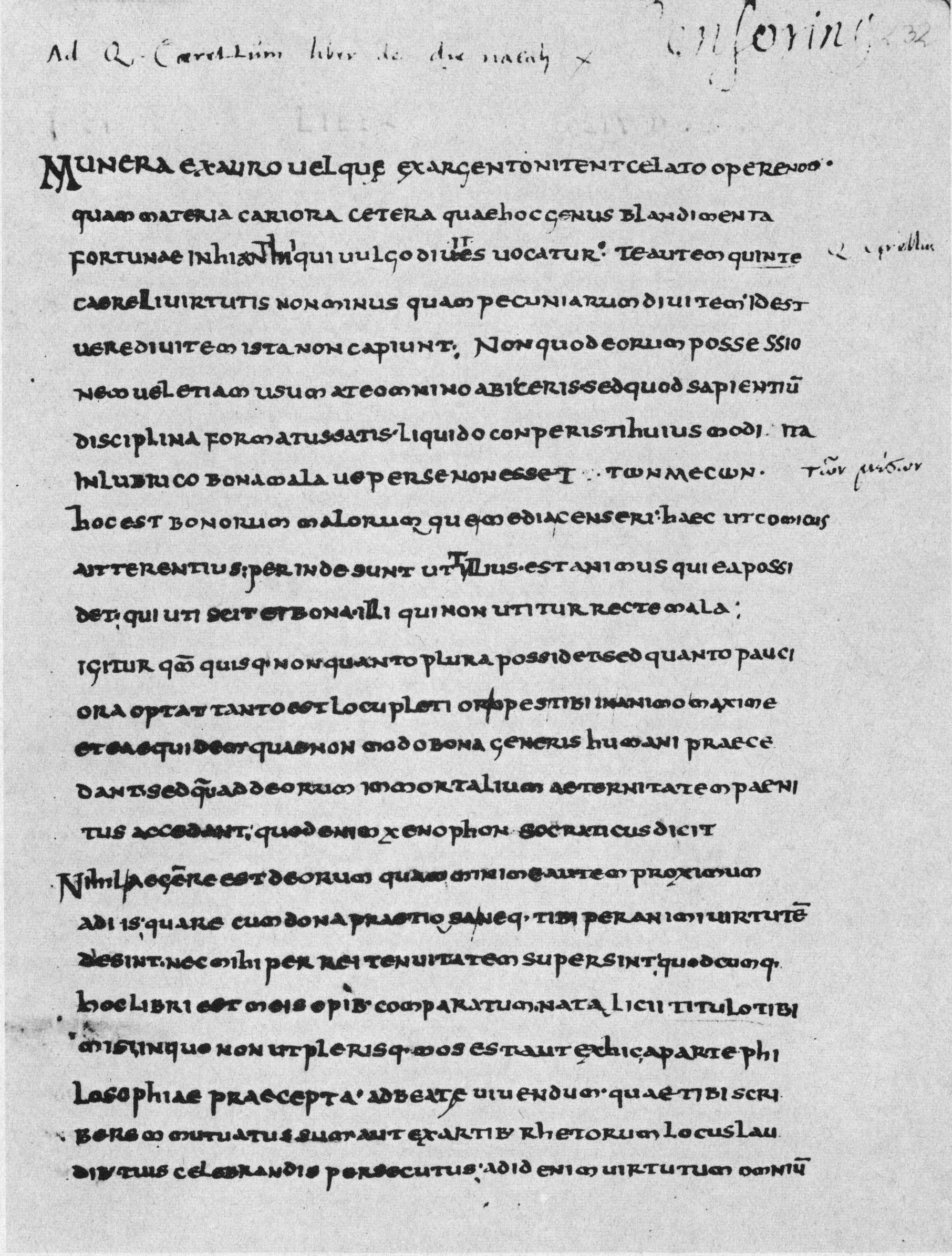 Censorinus, De die natali, in ms. Cologne, Dombibliothek, 166, fol. 232r.